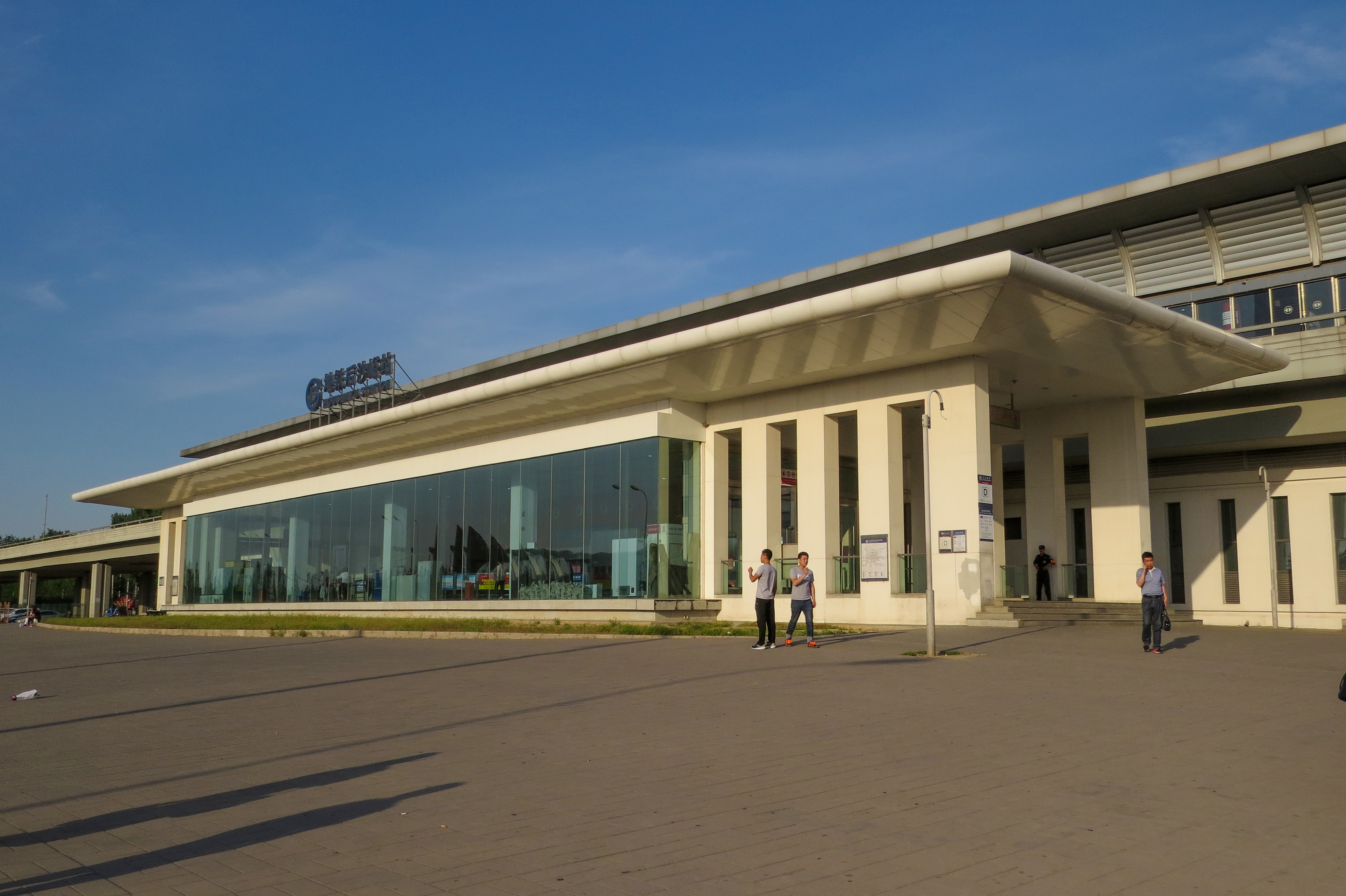 Fine day, but southern wind.